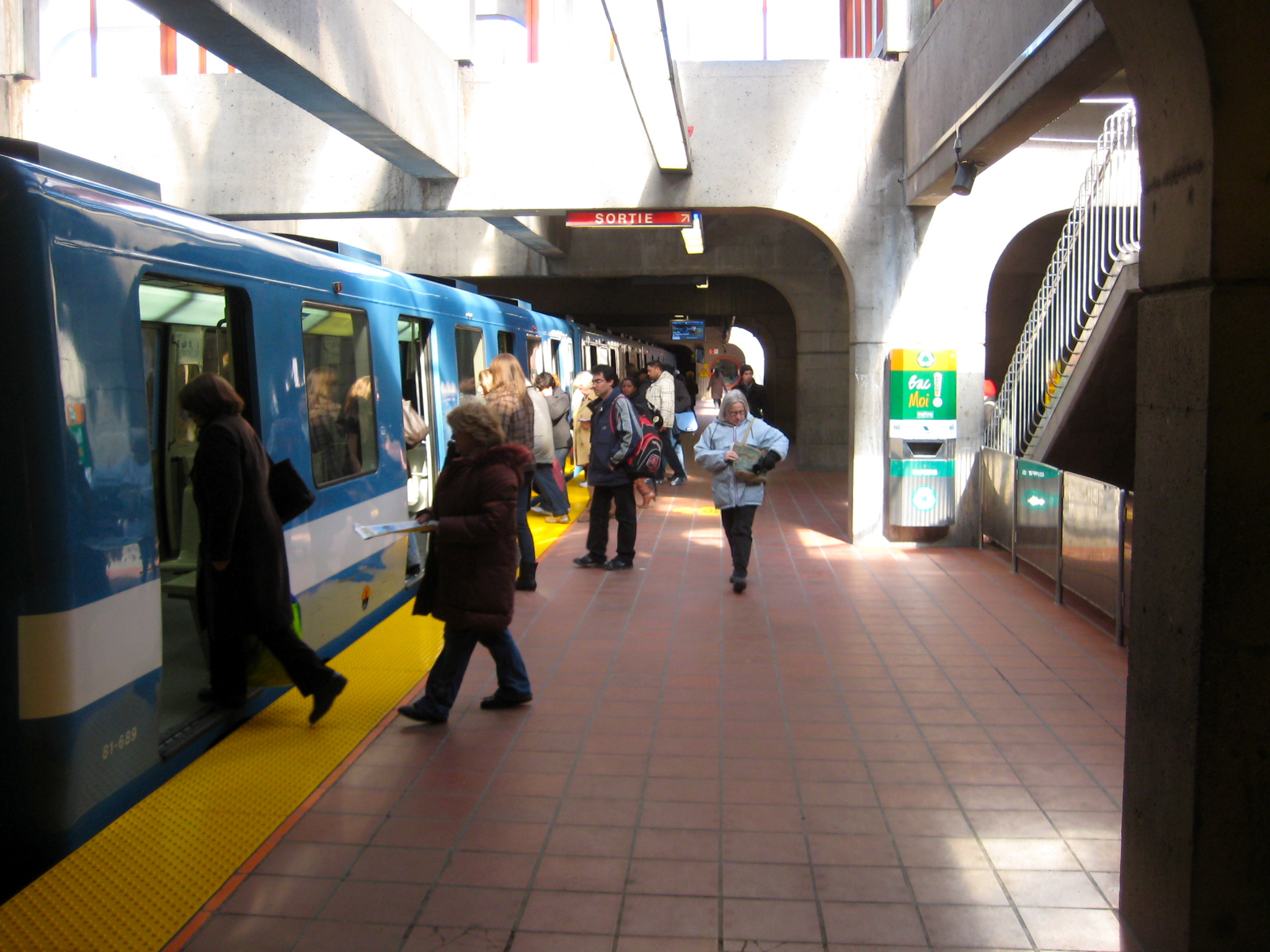 Angrignon station, Montreal Metro